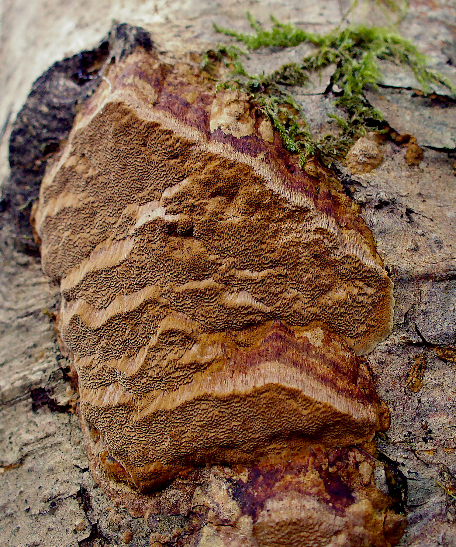 Phellinus ferruginosus Location: LBA Park, Olympia, Washington, USA Observation Notes: Young growth on Alnus Rubra in riparian zone. Evidence of decomposition on upper portions of host tree implies saprophytic fungi. For more information about this, see the observation page at Mushroom Observer.